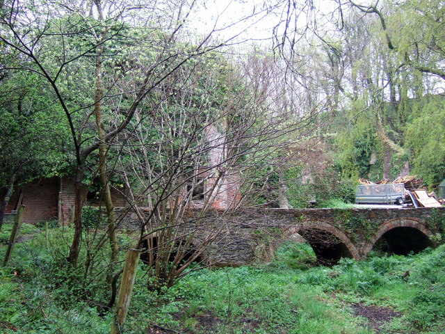 Prendergast mill and bridge From the old maps it appears that a millstream was created from further up the Western Cleddau, looping round to re-enter the river just below this bridge which must have needed to be substantial to support the weight of the machinery and the comings and goings of raw materials and finished product. The water course no longer flows.